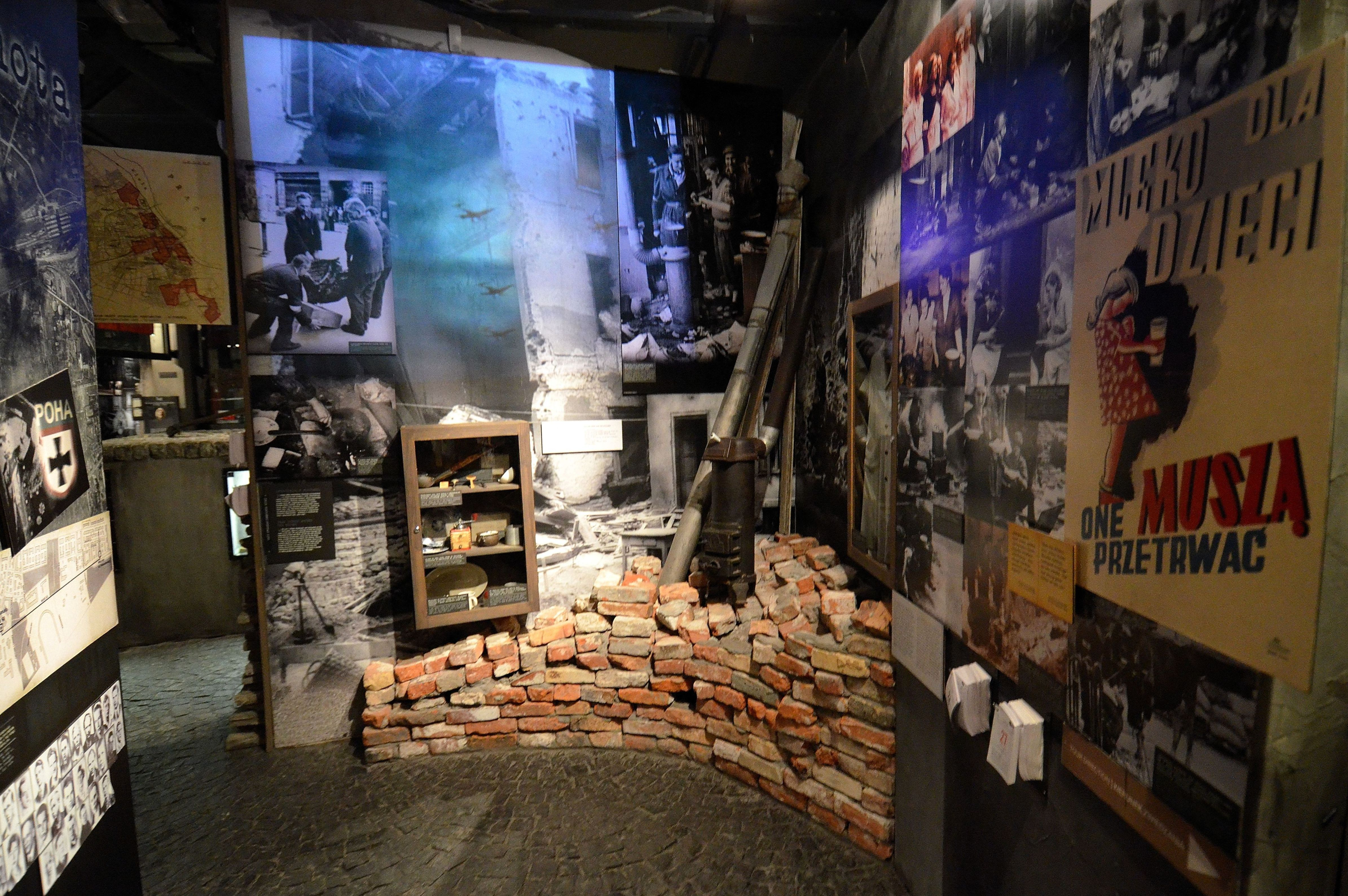 Exhibition on food supply during the Uprising at the Warsaw Uprising Museum